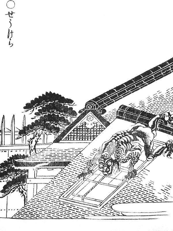 Shoukera (せうけら, a creature that peers in through skylights) from the Gazu Hyakki Yakō (画図百鬼夜行)